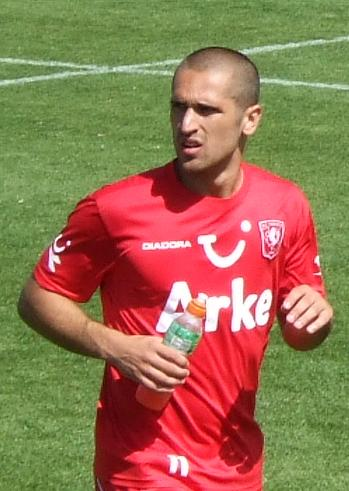 FC Twente player Emir Bajrami